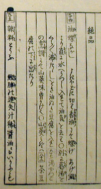 A picture of old japanese book named "Strange 100 tofus"